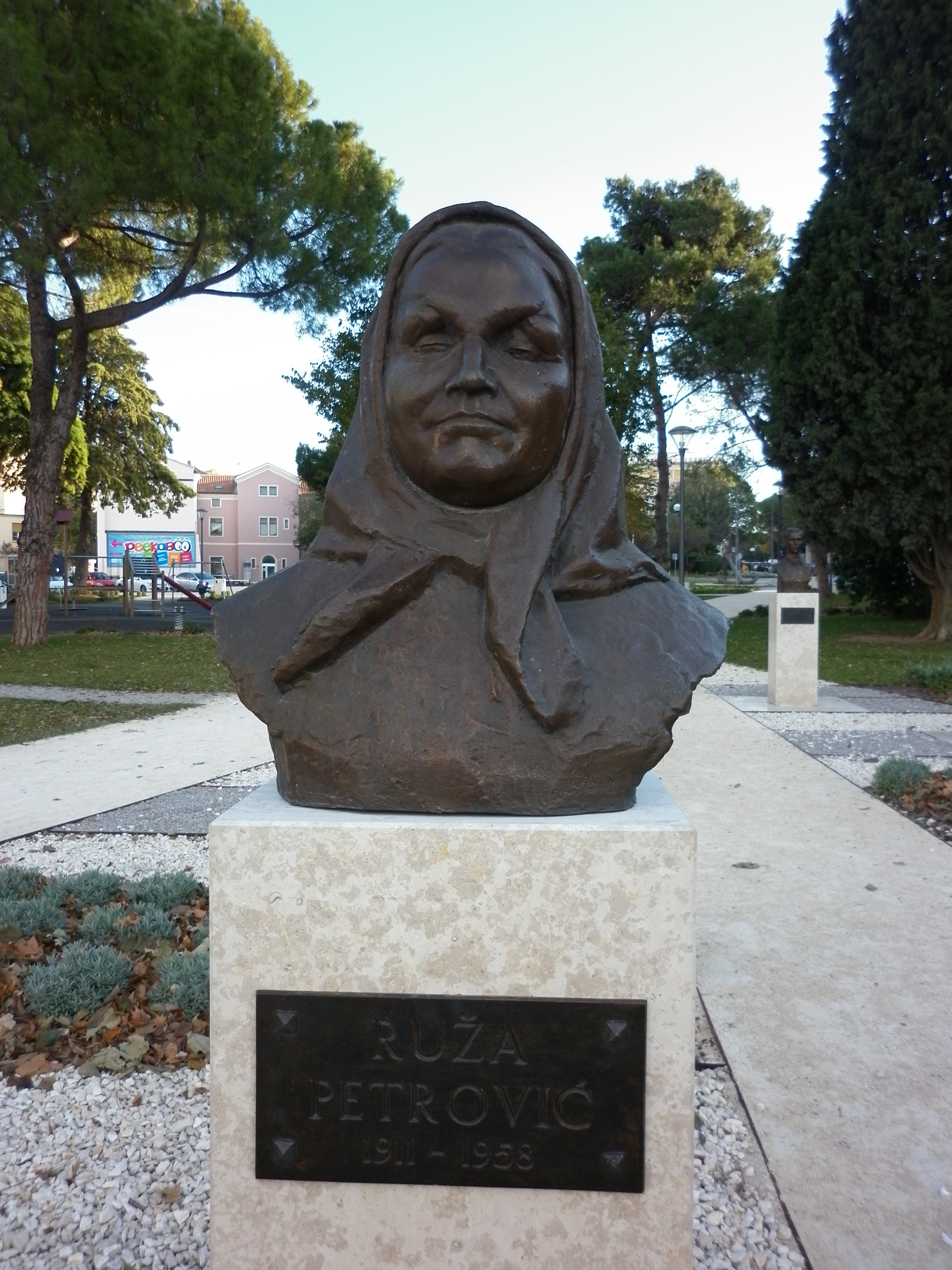 Bust of People's Liberation Movement of Yugoslavia fighter, Ruža Petrović, Tito's Park, Pula.